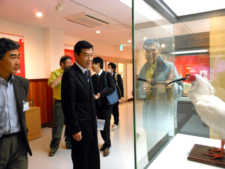 Katsuhiko Yokomitsu, Senior Vice-Minister of the Environment, inspected the Toki Materials Exhibition Hall in Sado City, Niigata Prefecture on November 19, 2011.